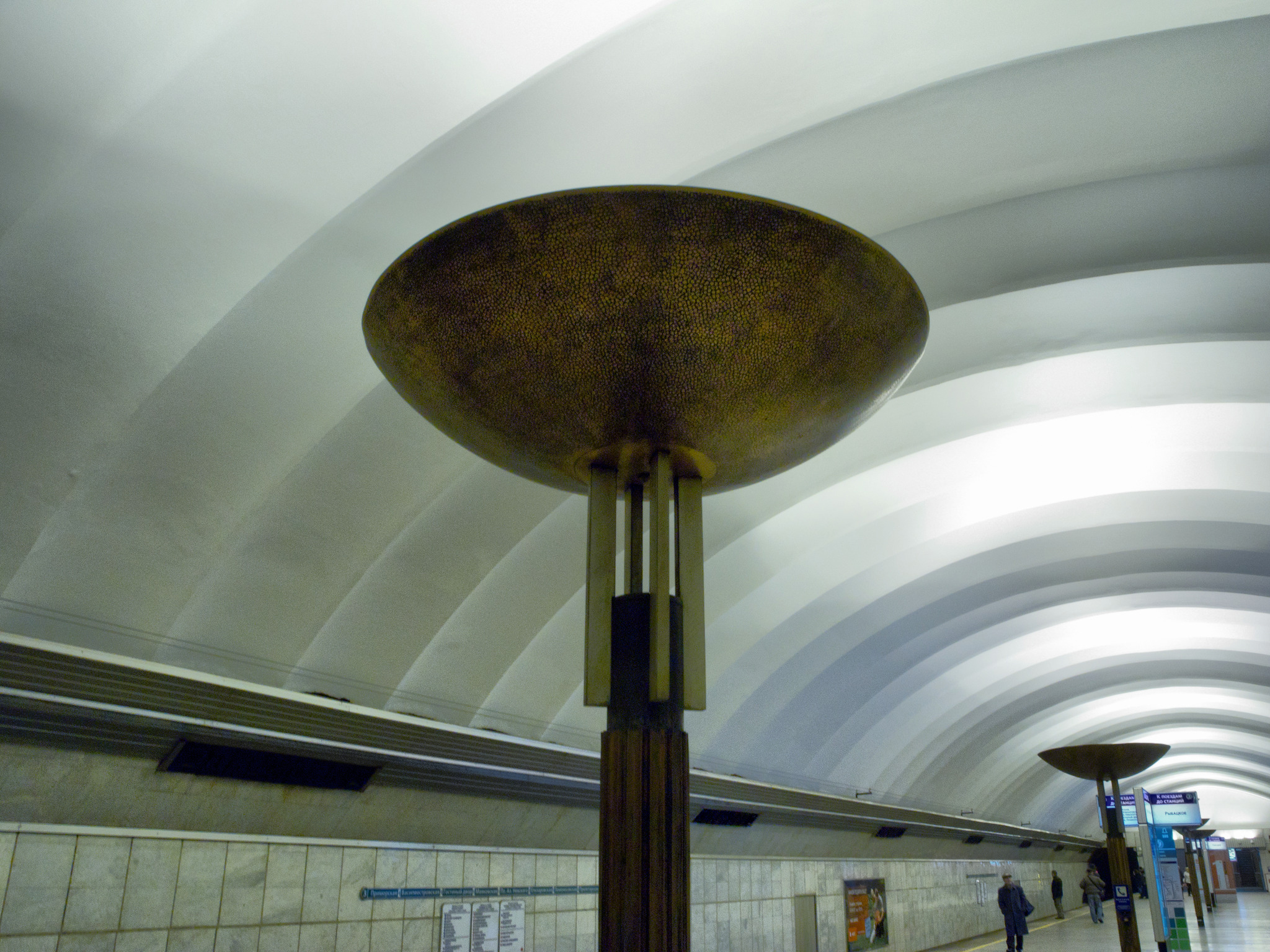 Original lamps of Obukhvo metrostation. St.Petersburg subway, 2011